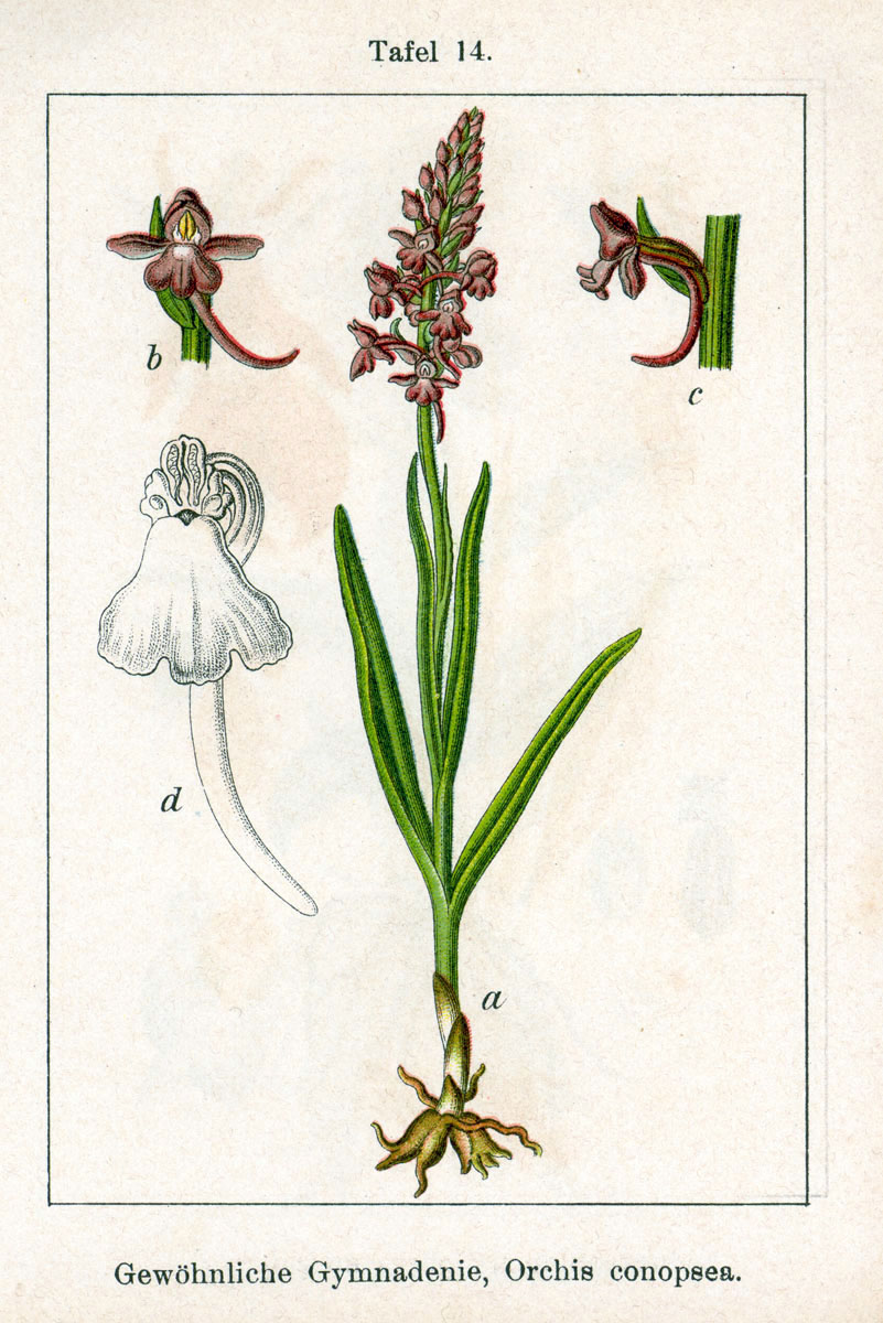 Gymnadenia conopsea subsp. conopsea, syn. Orchis conopsea L. Original Description Gewöhnliche Gymnadenie, Orchis conopsea